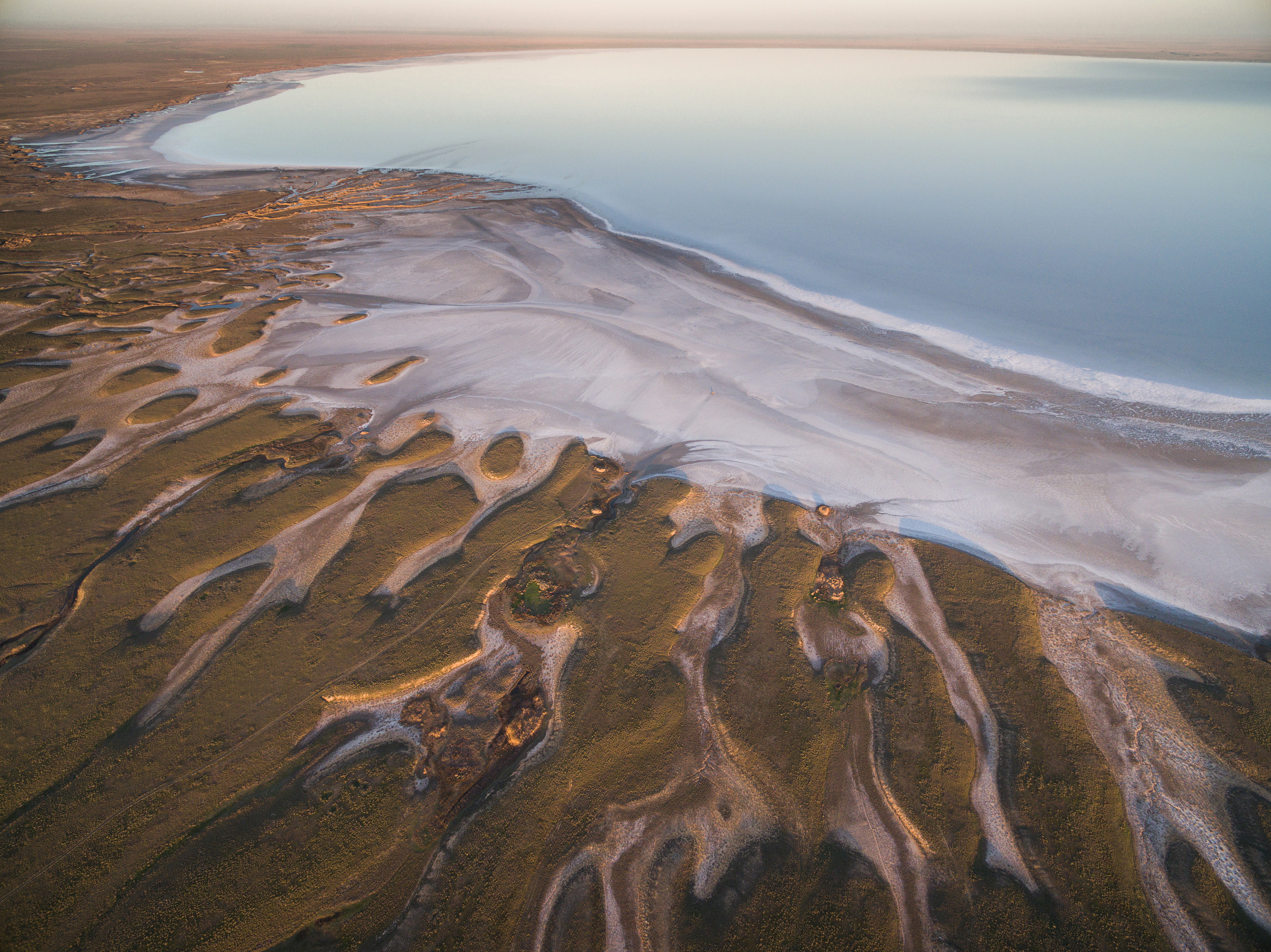 The shore of Solt Lake Elton, Volgograd Oblast, Russia